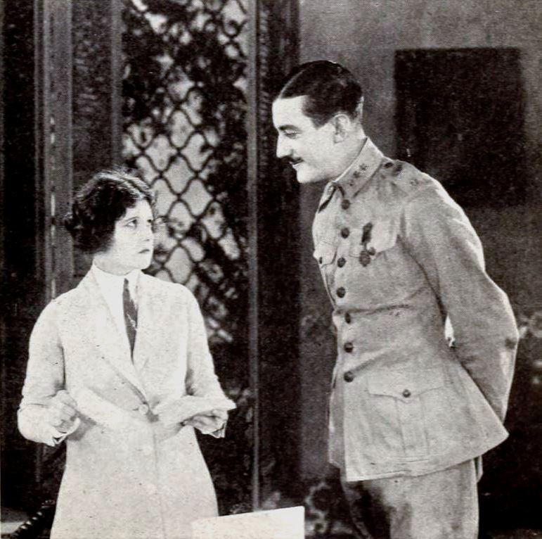 Still from the American drama film Something Different (1920) with Constance Binney and Ward Crane, on page 75 of the January 8, 1921 Exhibitors Herald.